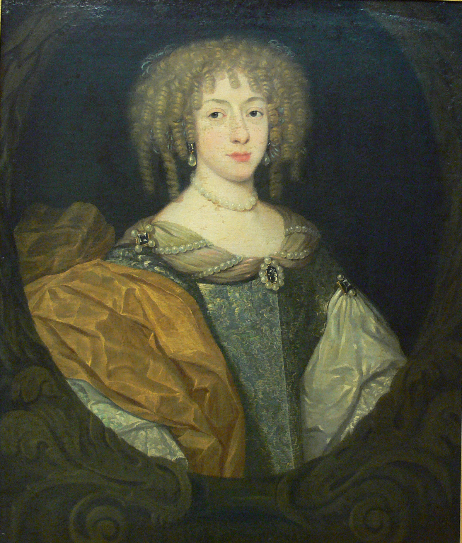 Portrait of Elisabeth Charlotte of the Palatinate